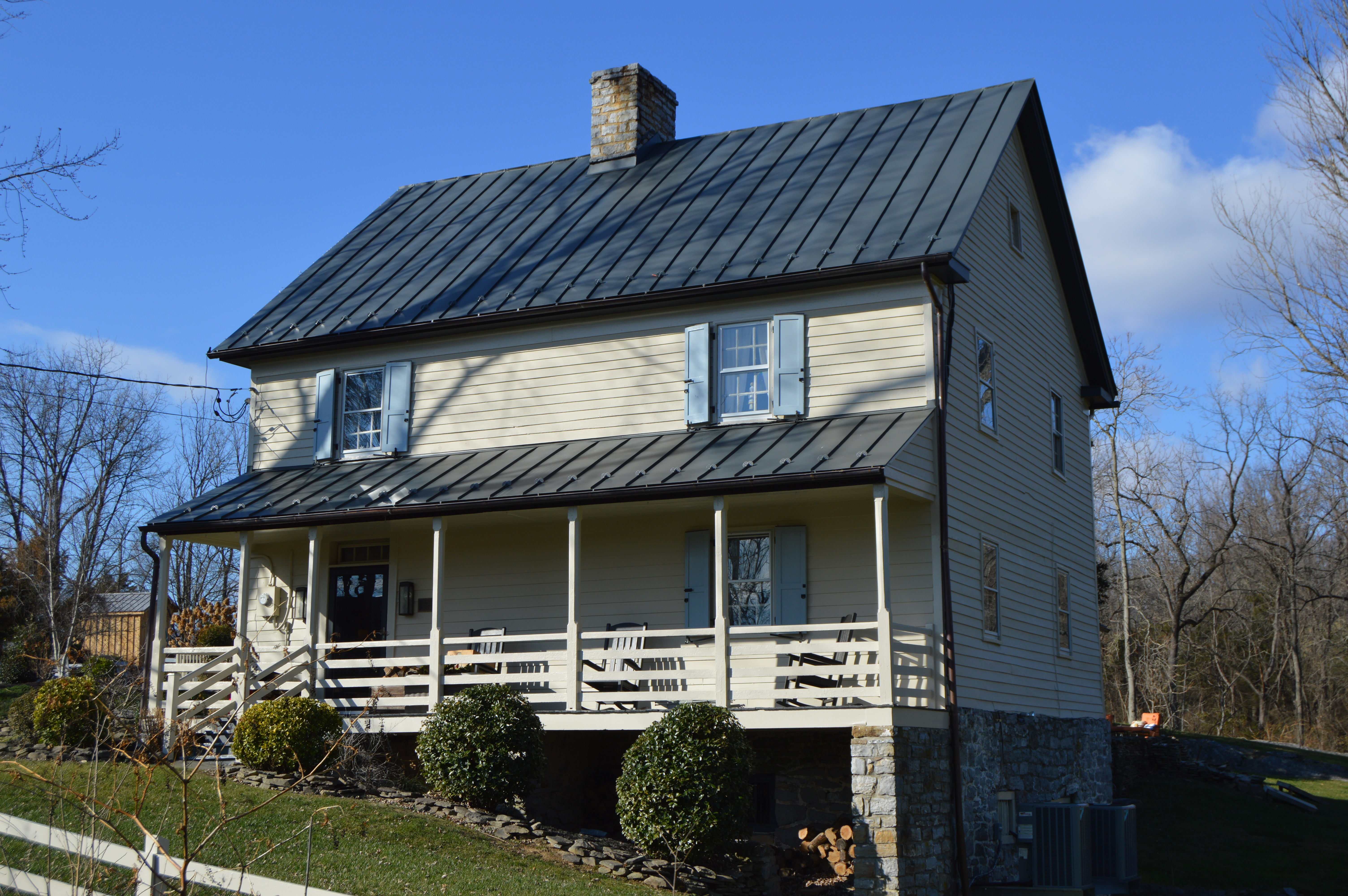 Front and northeastern side of the Snapp House, located on Copp Road northeast of Toms Brook in Shenandoah County, Virginia, United States. Built in 1790, it is listed on the National Register of Historic Places.